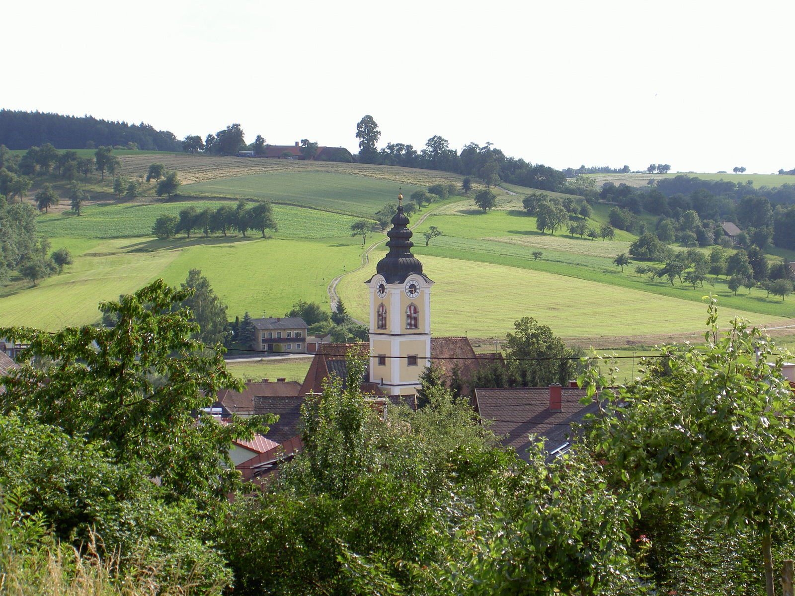 the church of St Marienkirchen an der Polsenz